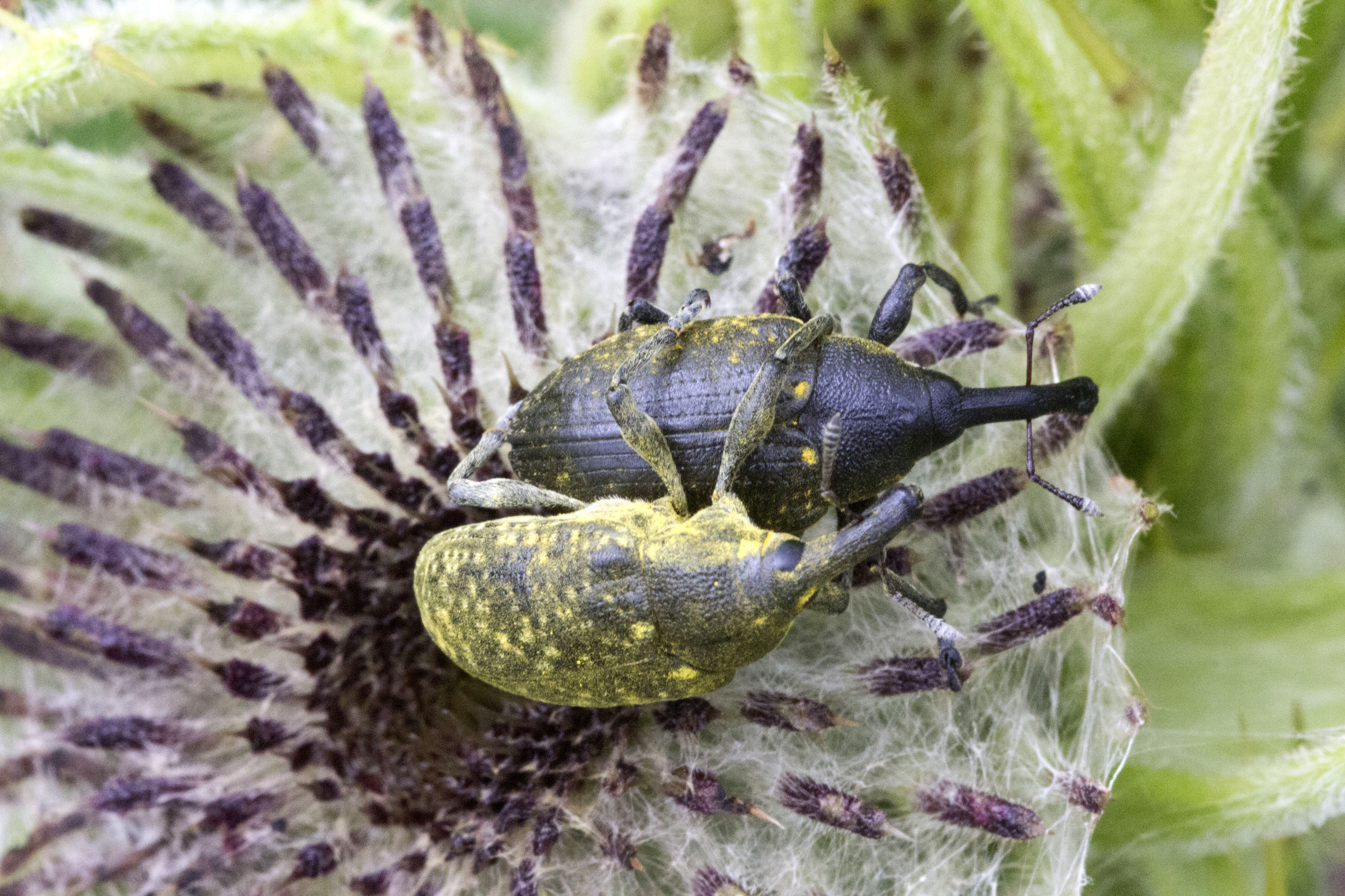 Mating of Liparus in a thistle flower